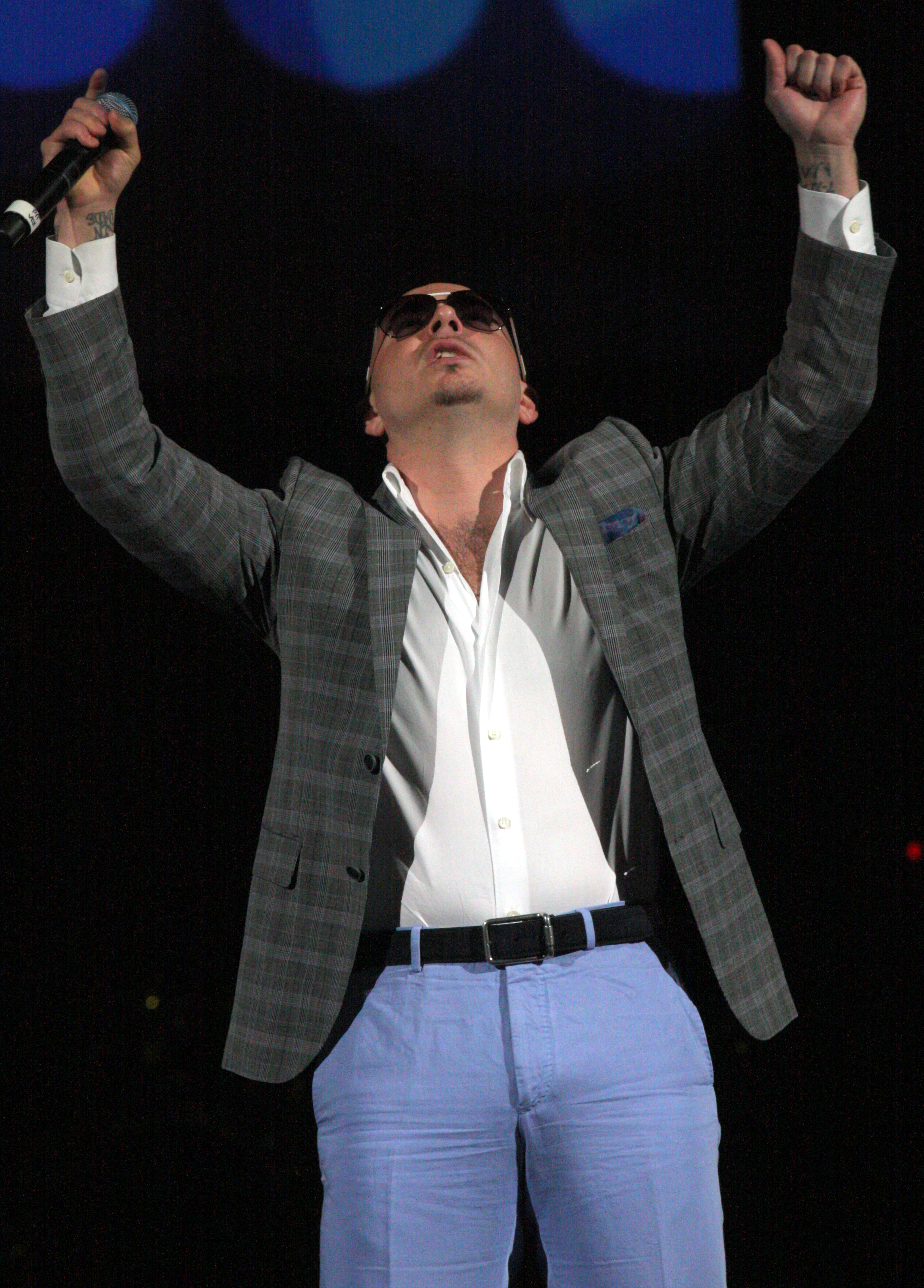 Pitbull in Enrique Iglesias Euphoria World Tour 2011.